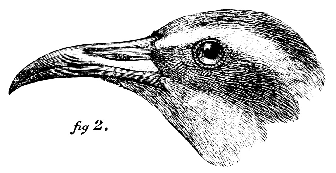 « Rallus dieffenbachii » = Gallirallus dieffenbachii (Dieffenbach's Rail) - head